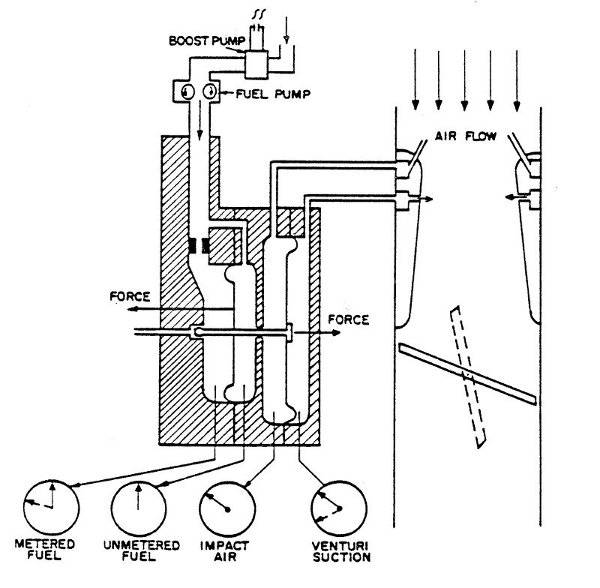 Bendix pressure carburetor chambers C and D